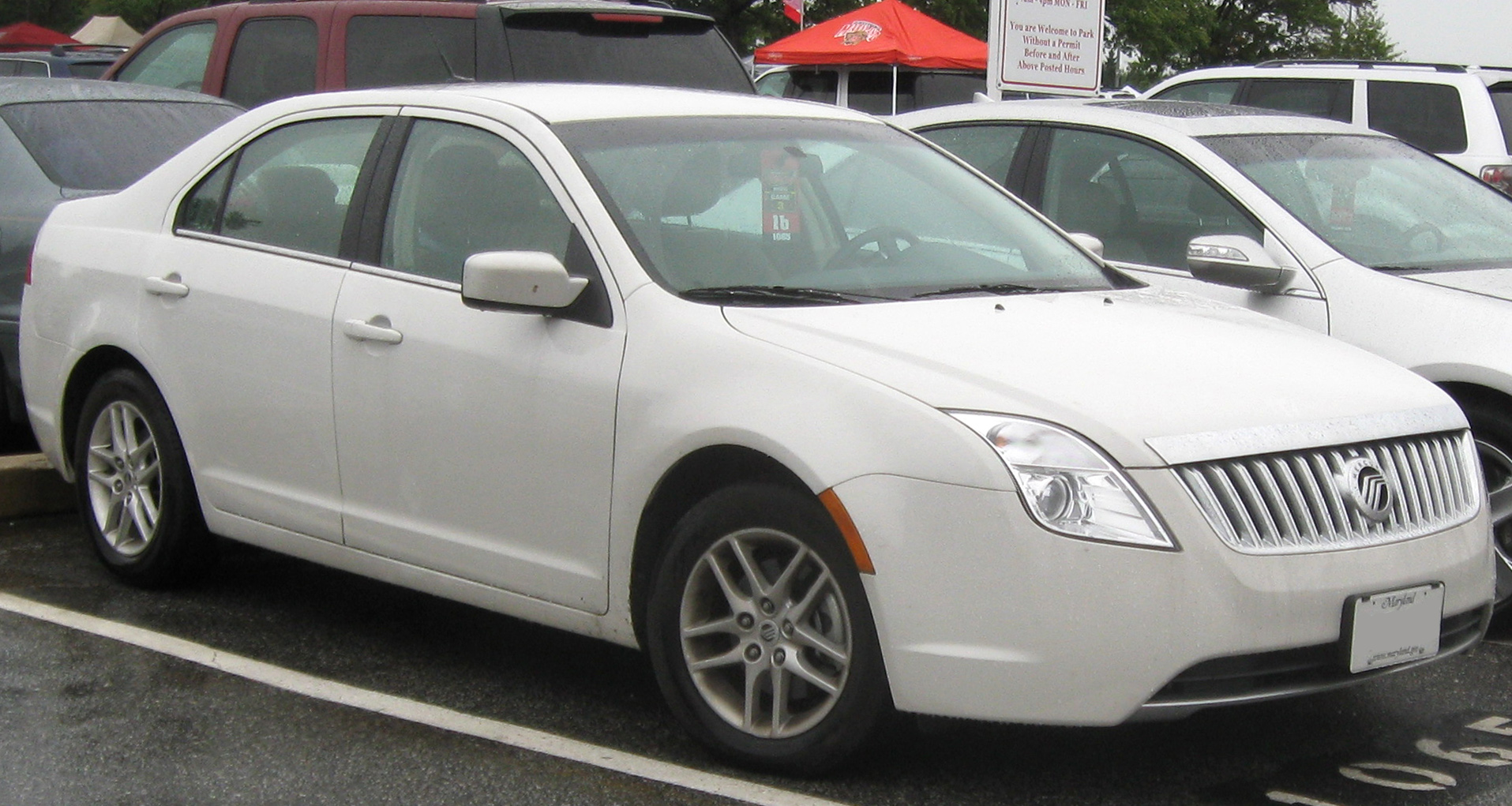 2010 Mercury Milan S photographed in College Park, Maryland, USA.